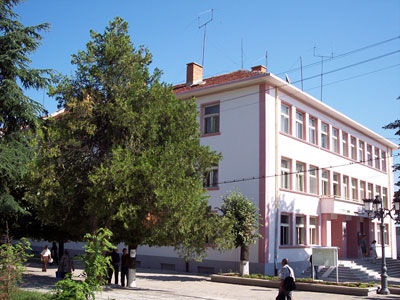 Topolovgrad City Hall